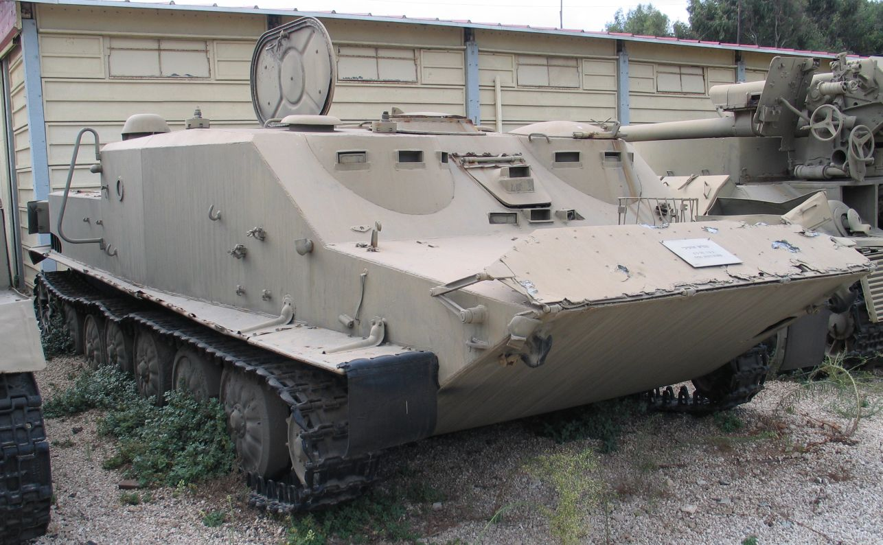 Description: BTR-50 amphibious APC in Batey ha-Osef Museum, Tel Aviv, Israel. 2005. Remark: The vehicle is labeled as BTR-50PK, but I think it's BTR-50PU command vehicle. Source: Photo by me, User:Bukvoed.